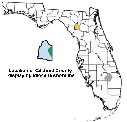 Location of Gilchrist County, Florida with Miocene shoreline.